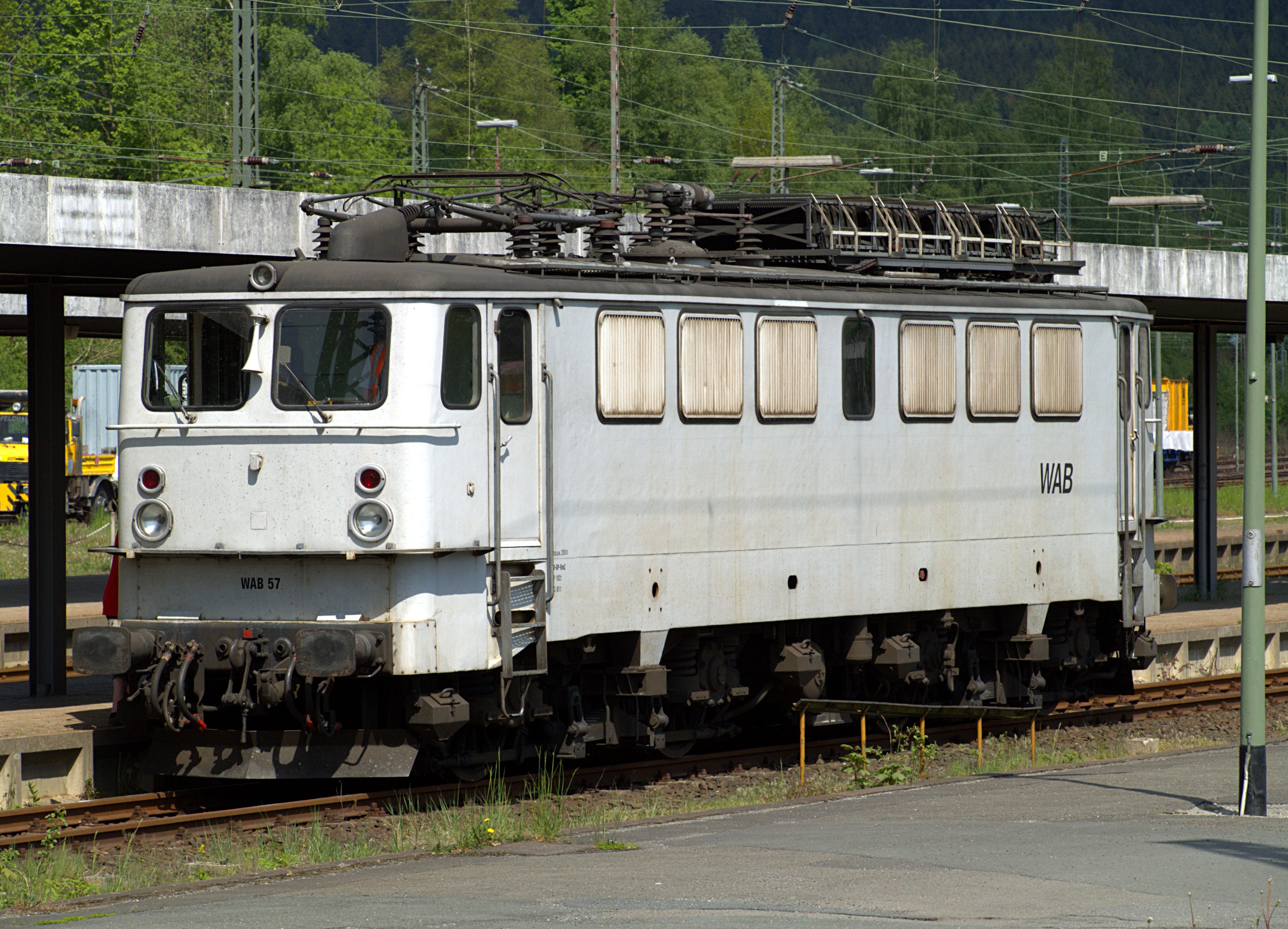 Locomotive #57 of the private German railway operator Westfälische Almetalbahn, a former East German Type E 42, in Altenbeken station.